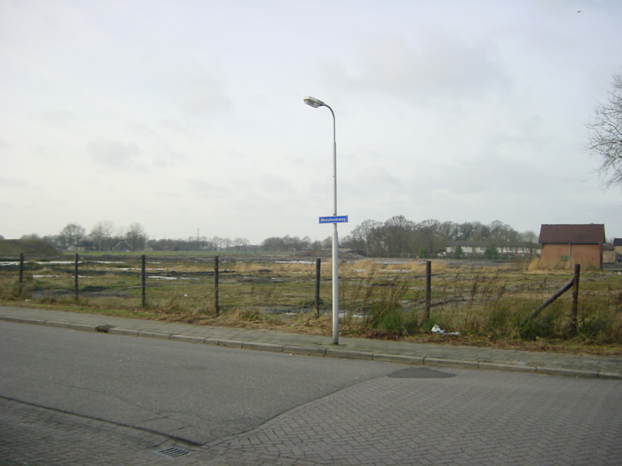 Former site of Bonte Wever after demolition in early 2005. Waiting for construction of housing for the Slagharen neighourhood.